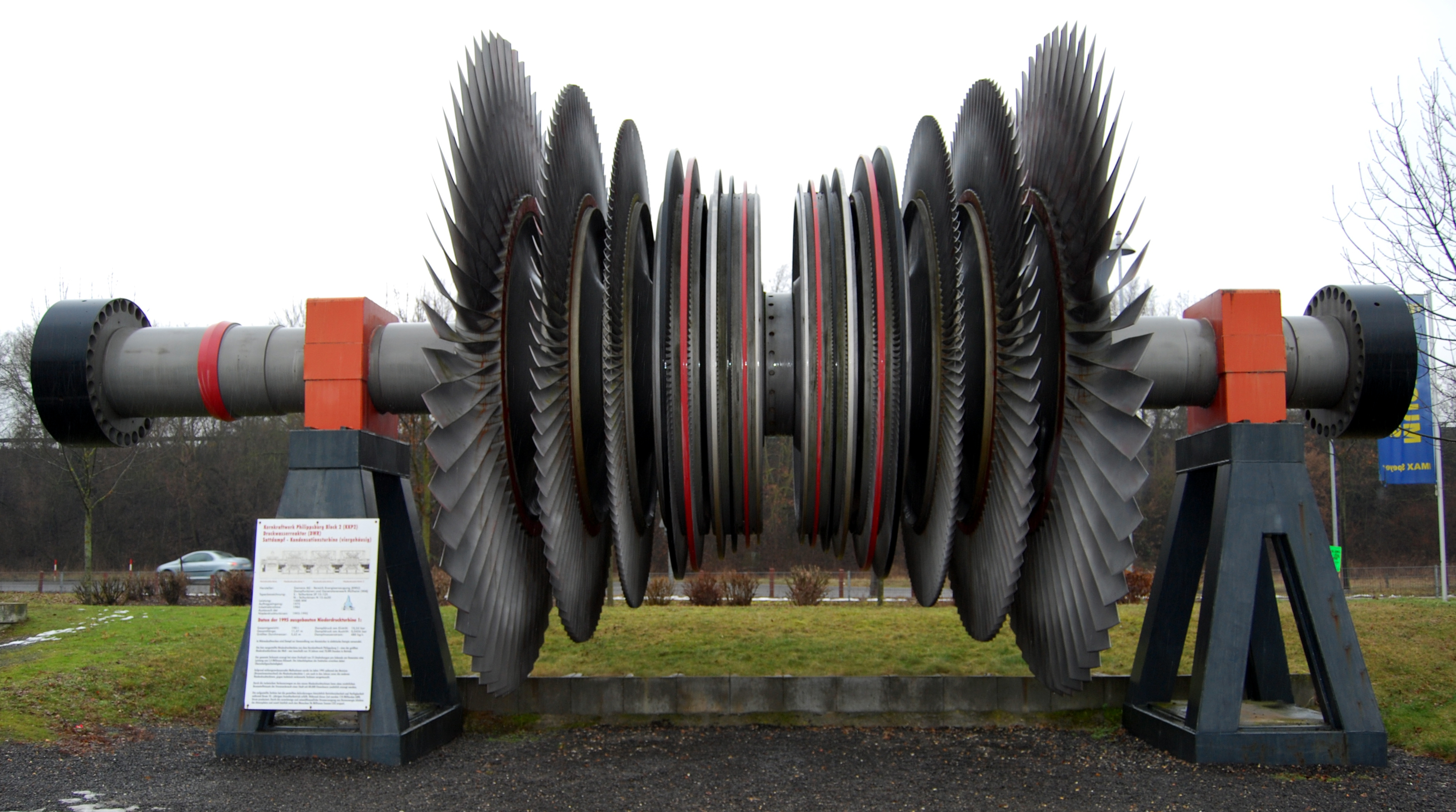 A turbine of Philippsburg Nuclear Power Plant, photographed at Technikmuseum Speyer.